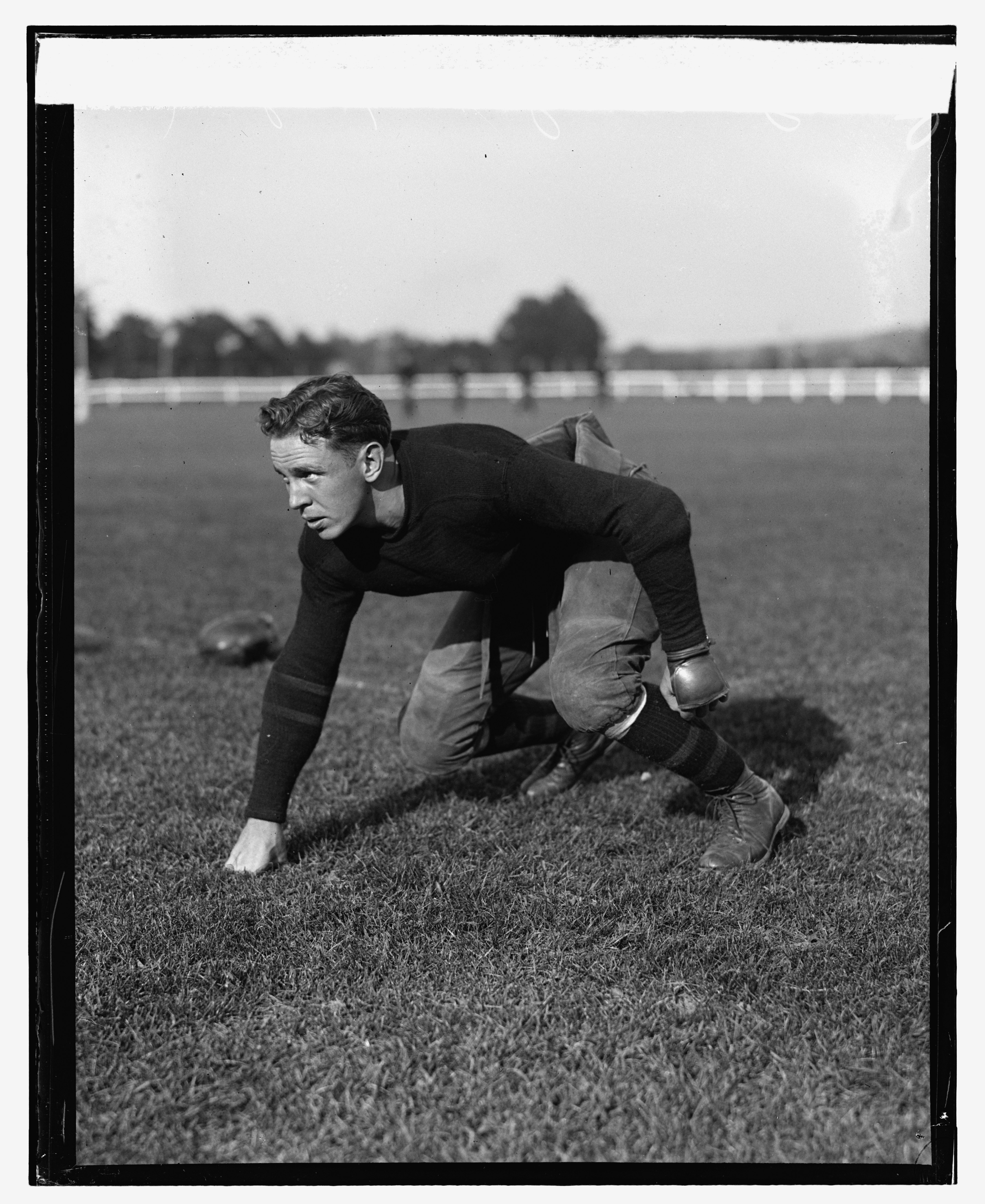 Title: John Lanigan, U. of Md. Abstract/medium: 1 negative : glass ; 4 x 5 in. or smaller